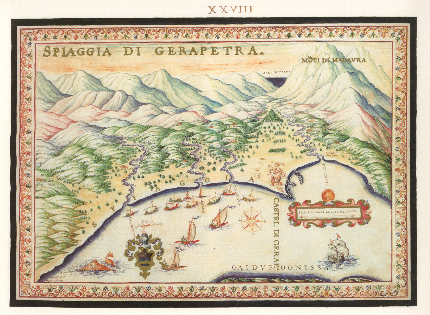 Spiaggia di Gerapetra - Francesco Basilicata - 1618